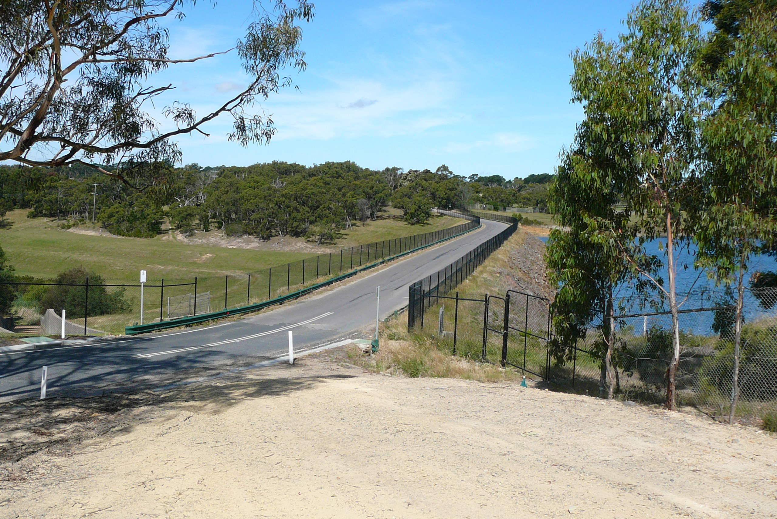 Devilbend Reservoir, land around reservoir and road 2008